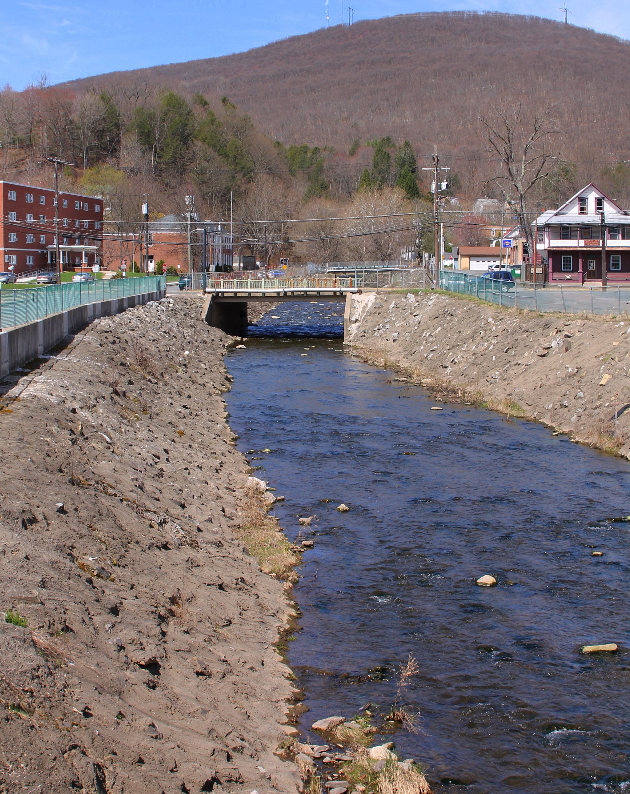 Shickshinny Creek looking upstream in Shickshinny from the Susquehanna Warrior Trail. The mountain is Huntington Mountain.